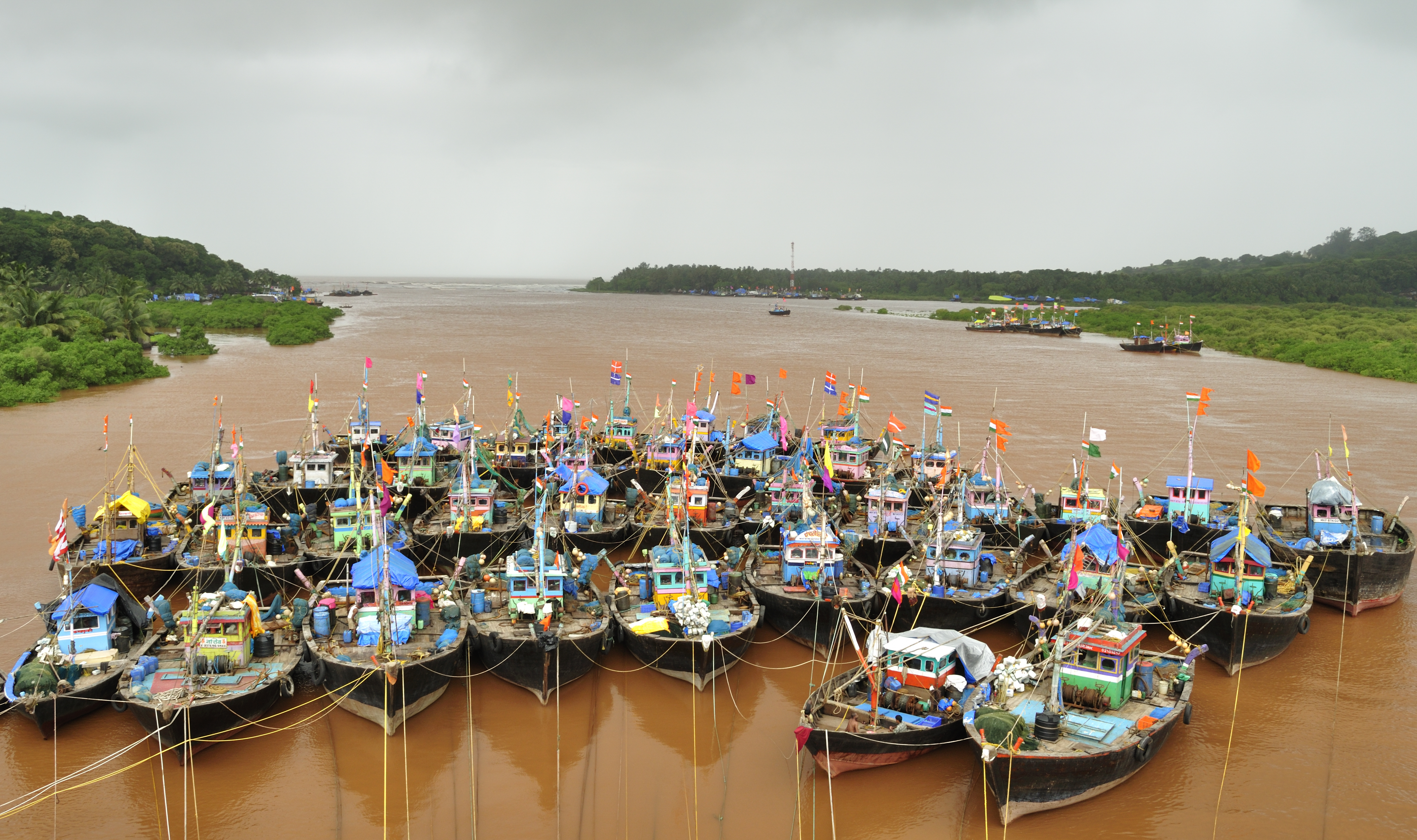 Anjarle is a village in the Konkan region of Maharashtra, India. The villages in this region depend a lot on fishing and transporting goods. There are some developed fish markets around here, where trade happens during the day. In the monsoon seasons, fishermen are often not able to to go to the sea. The photograph shows a number of boats parked in a creek near Anjarle village. At the distance one can see the sea and impending rain. The primary objective of this photograph was to capture the rustic feel. It also attempts to tell a real story. Note: This photograph uses Adobe RGB color space. It is recommended that the photograph be viewed in a browser/image viewer that supports non-sRGB color space. Safari and Firefox include non-sRGB color space support by default